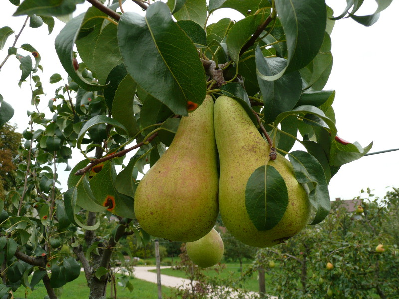 pear cultivar 'Concorde' at Botanischer Obstgarten Heilbronn.